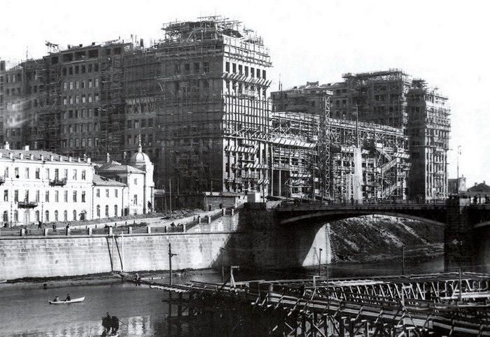 Construction of the House on Embankment from across the Moscow river